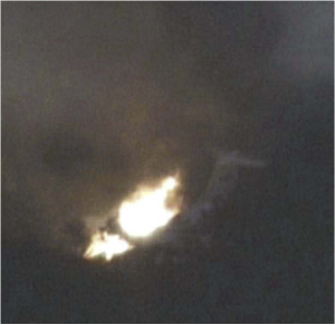 Fire of Atlantic Airways Flight 670 21 seconds after impact.